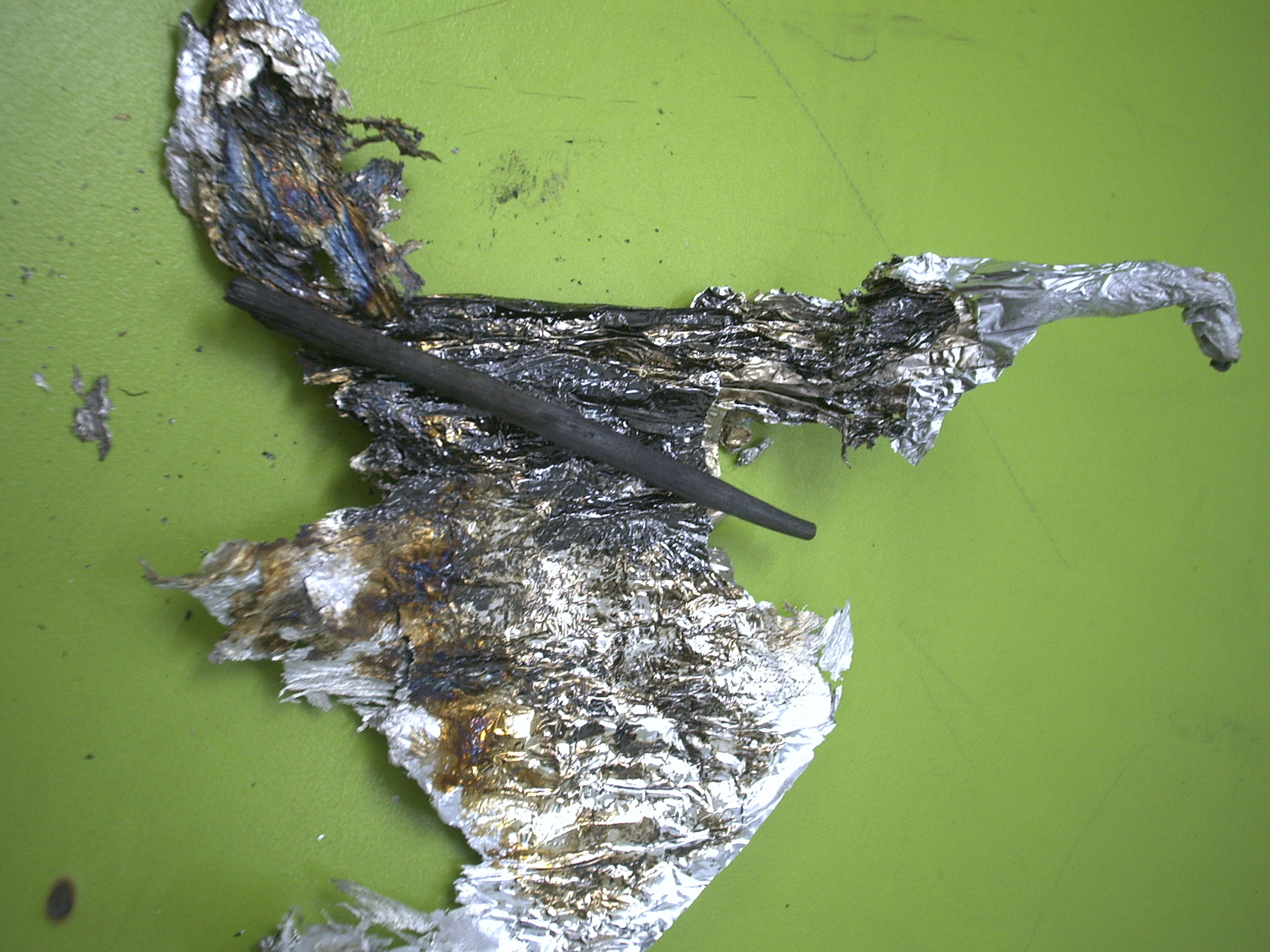 Dry distillation product.